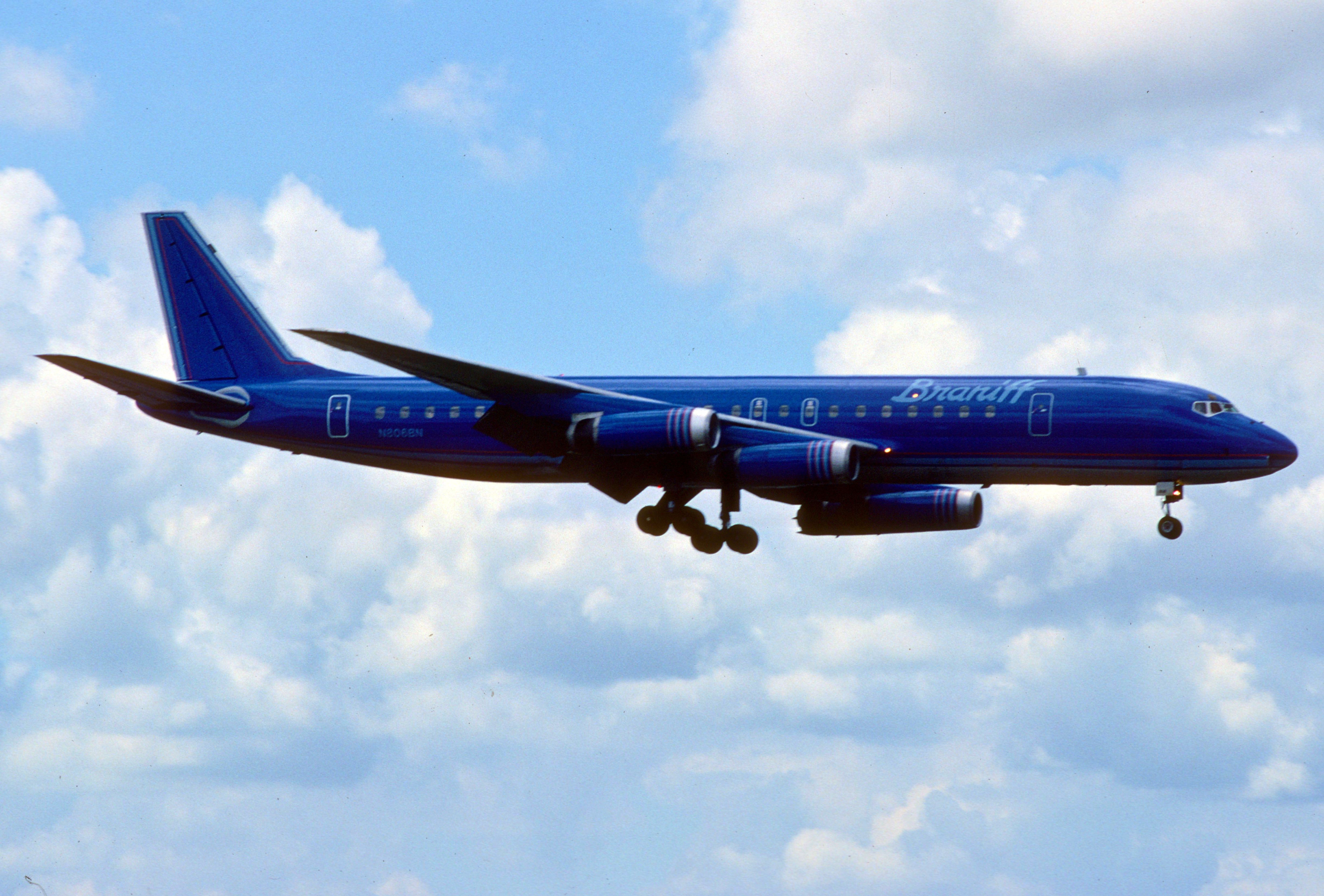 Braniff International DC-8-62; N806BN, June 1980/ AUR